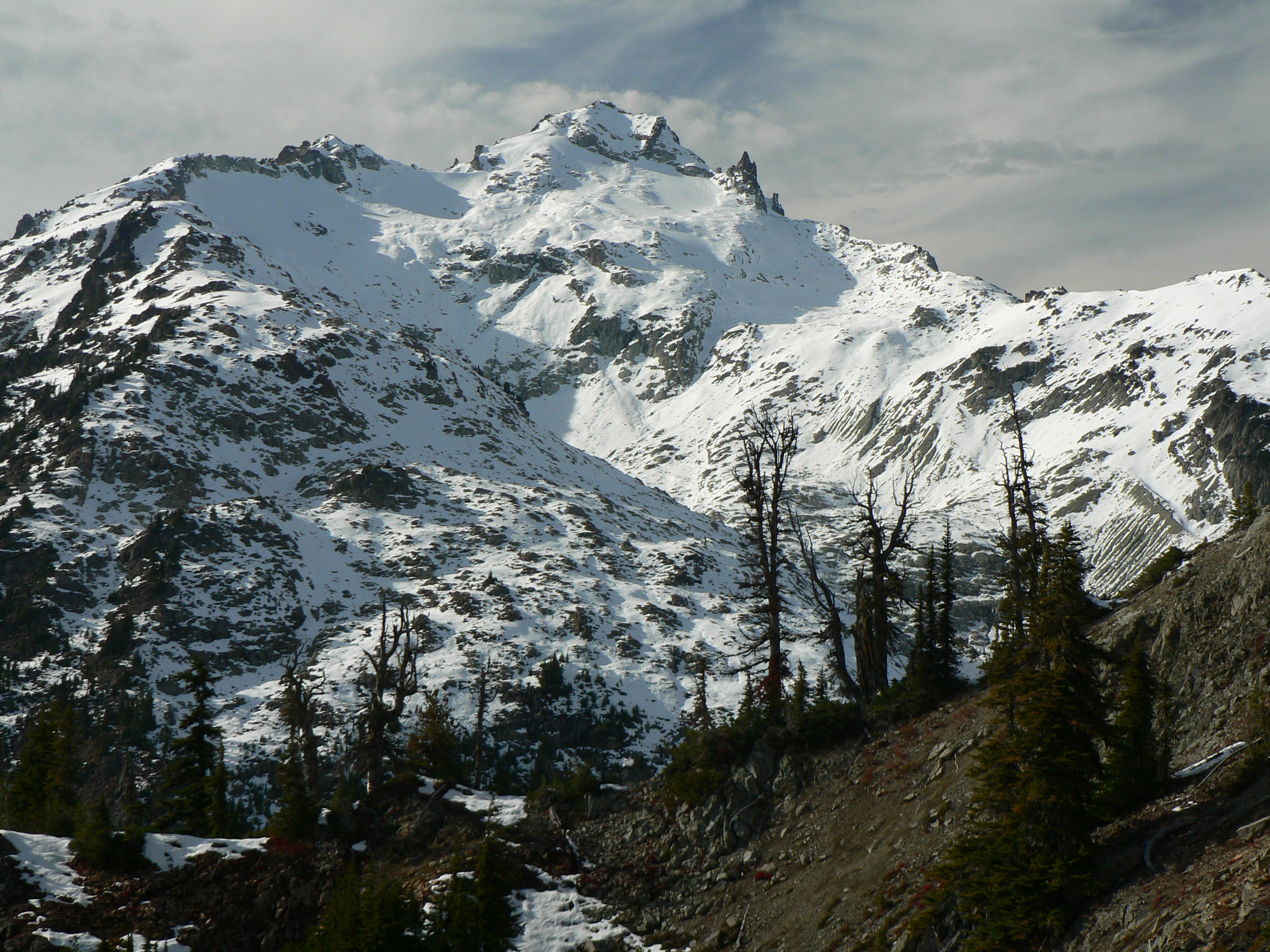 Mount Daniel (7899 feet)